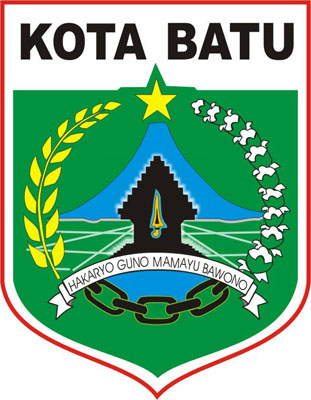 Lambang (Coat of Arms) of Kota (City) of Batu, provinsi Jawa Timur (East Java Province), Indonesia